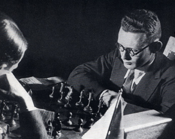 Botvinnik in play against Salo Flohr, match 1933.